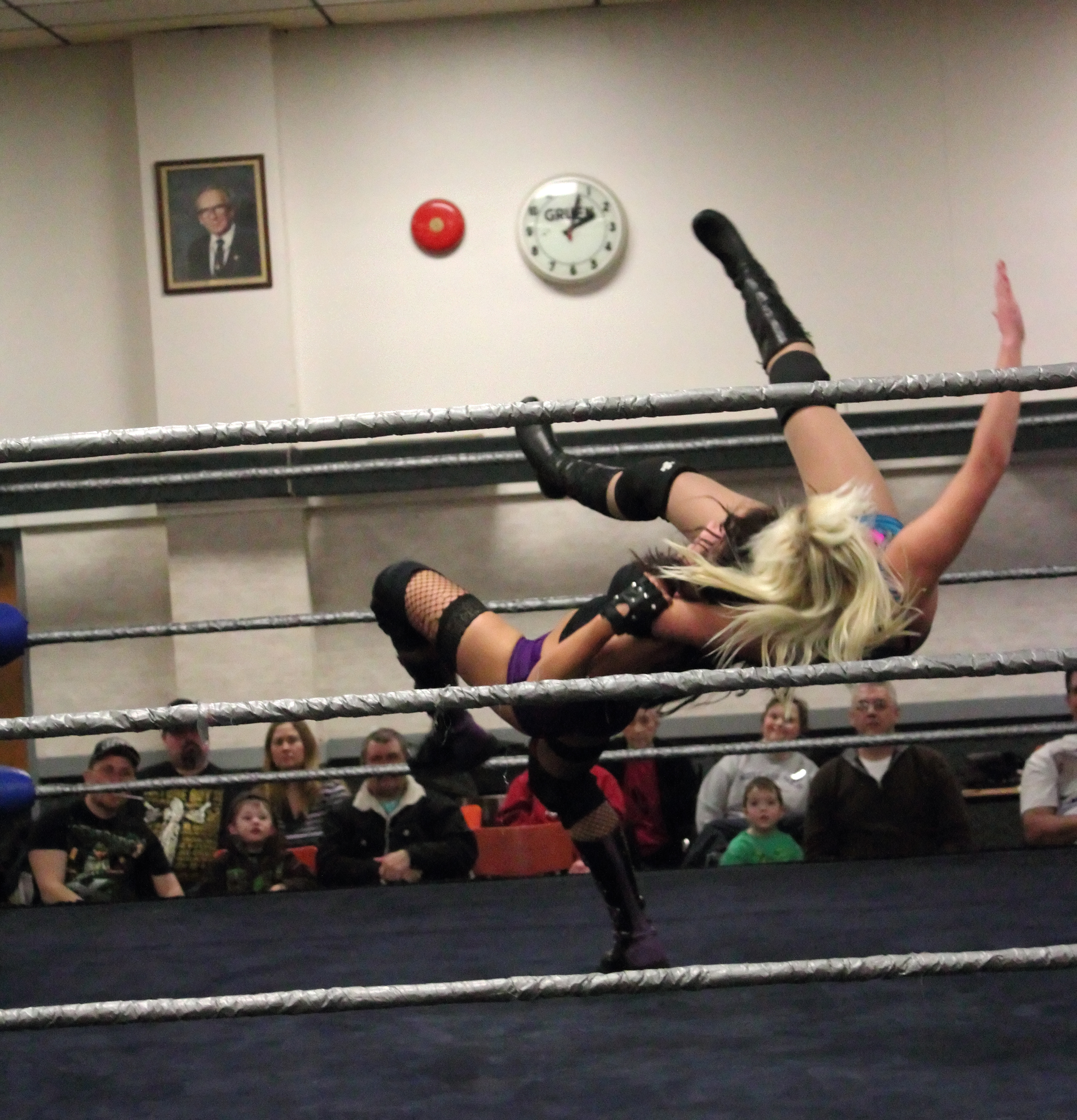 Courtney Rush executing a T-bone suplex on Gabriella Vanderpool